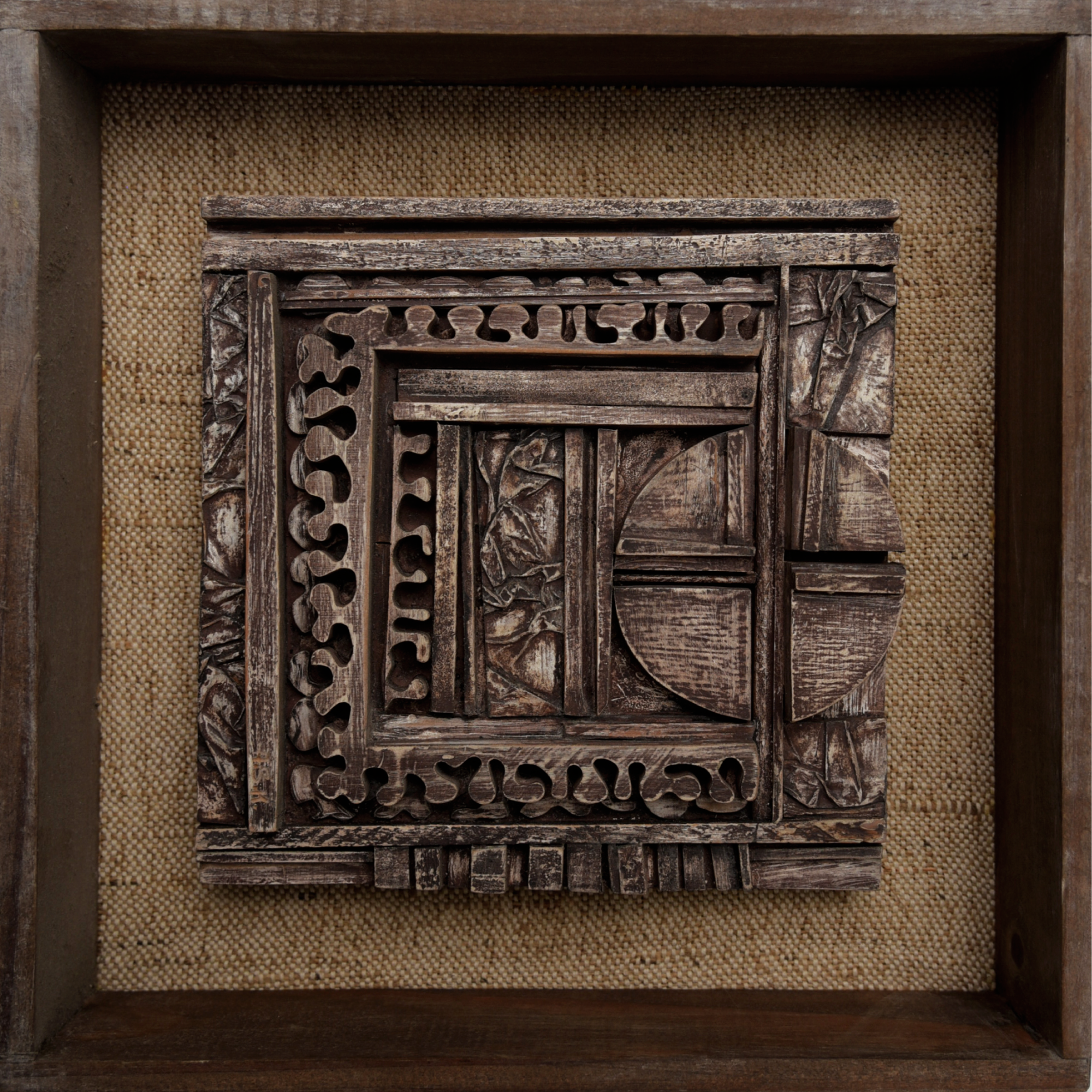 An artwork created by A. Stanevičius